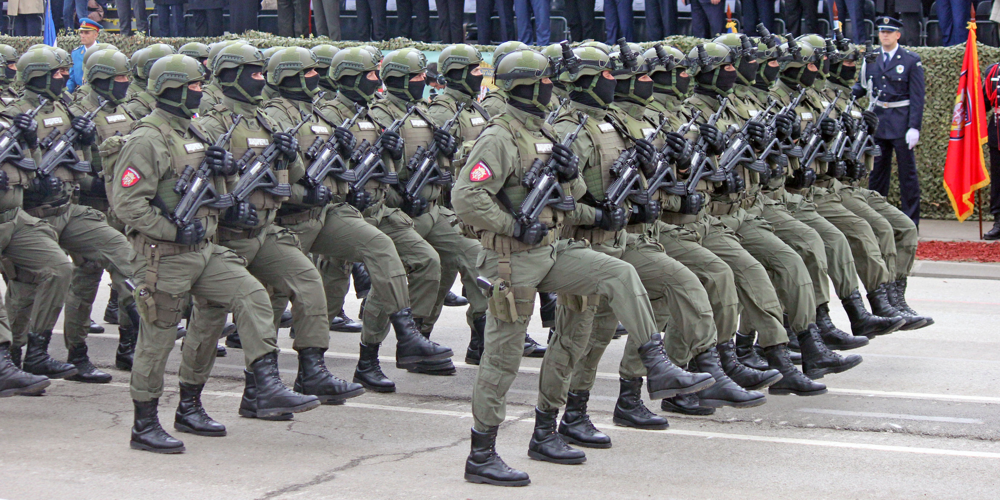 Serbian Gendarmerie at military parade in Niš.